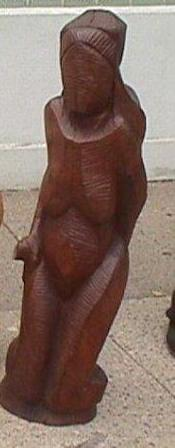 Noble Burdens 1980 by Cephas Yao Agbemenu, directly from his photo album.